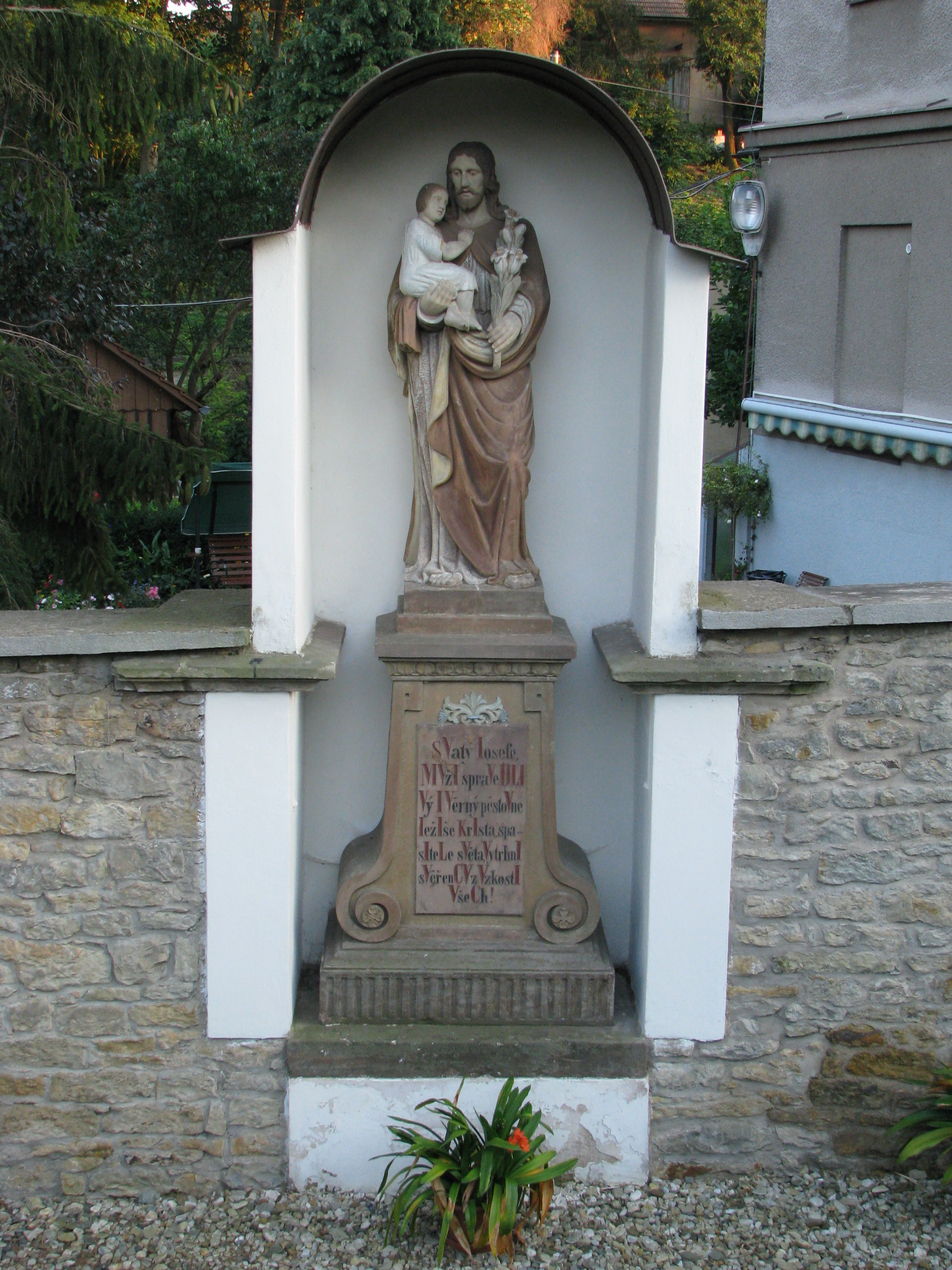 Statue of St. Joseph in Horní Sloupnice